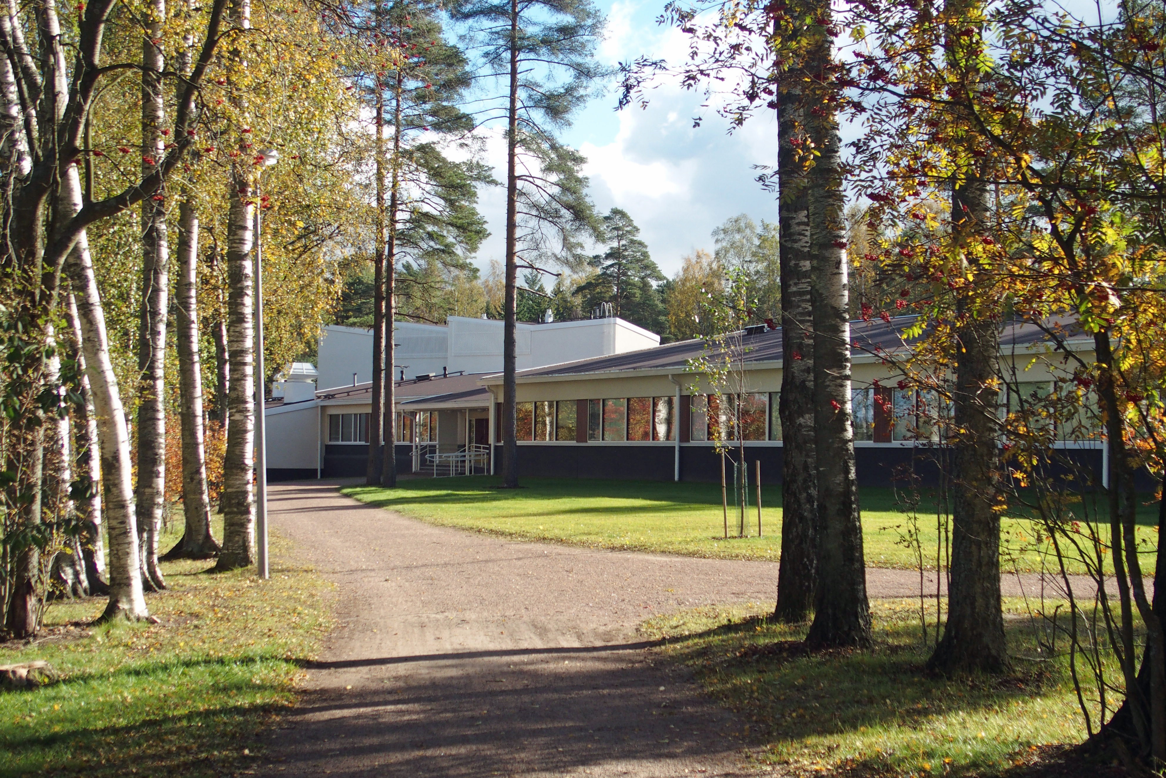 Tapiola schools after the renovation in October, 2016. Seen from Silkkiniitty (from northwest).